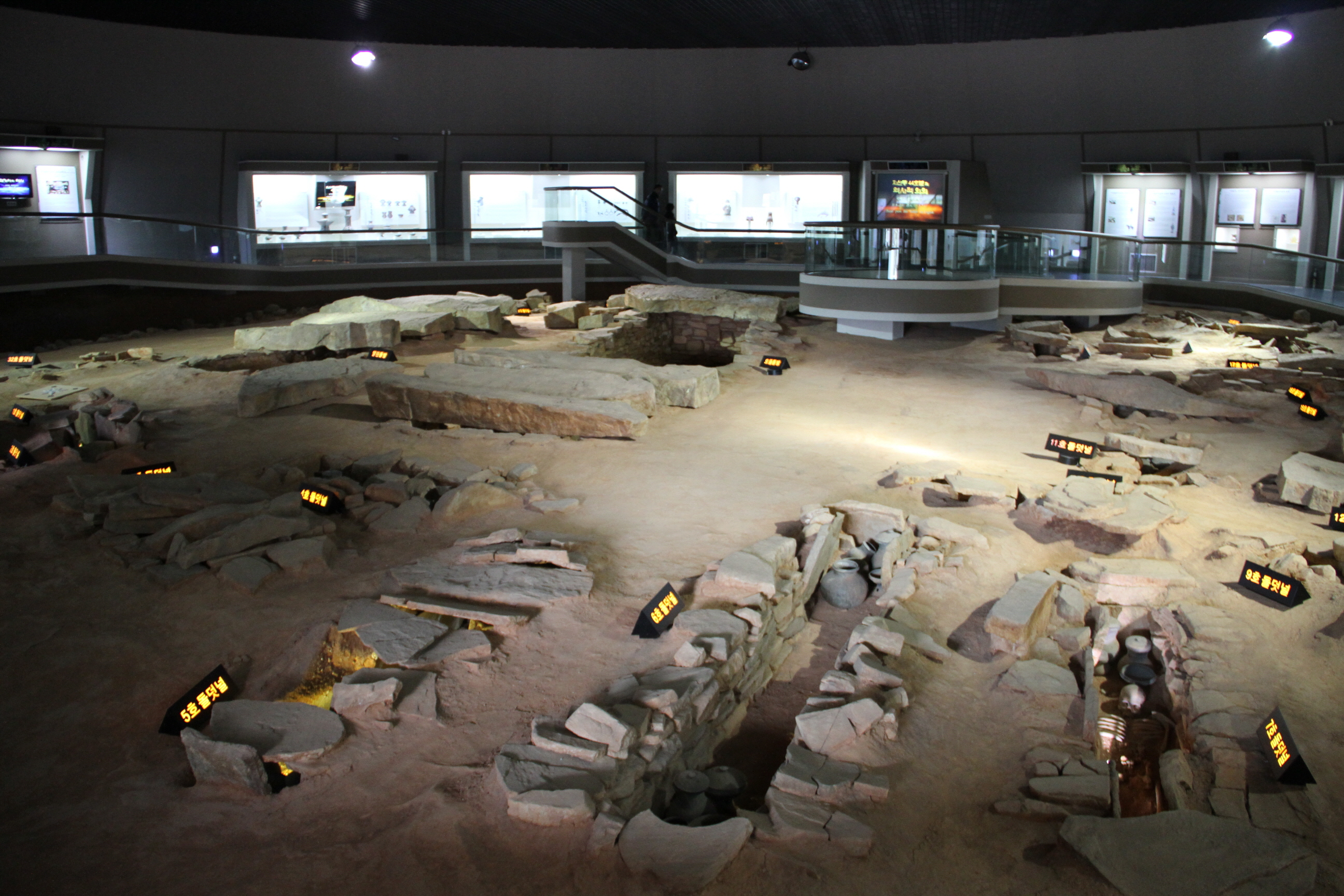 Exhibition inside Daegaya royal tomb